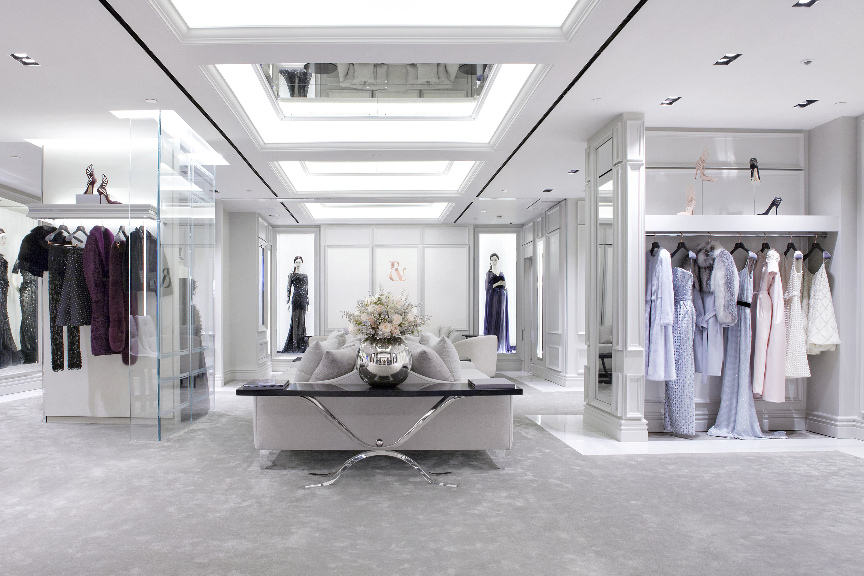 An image of the Ralph & Russo Harrods boutique